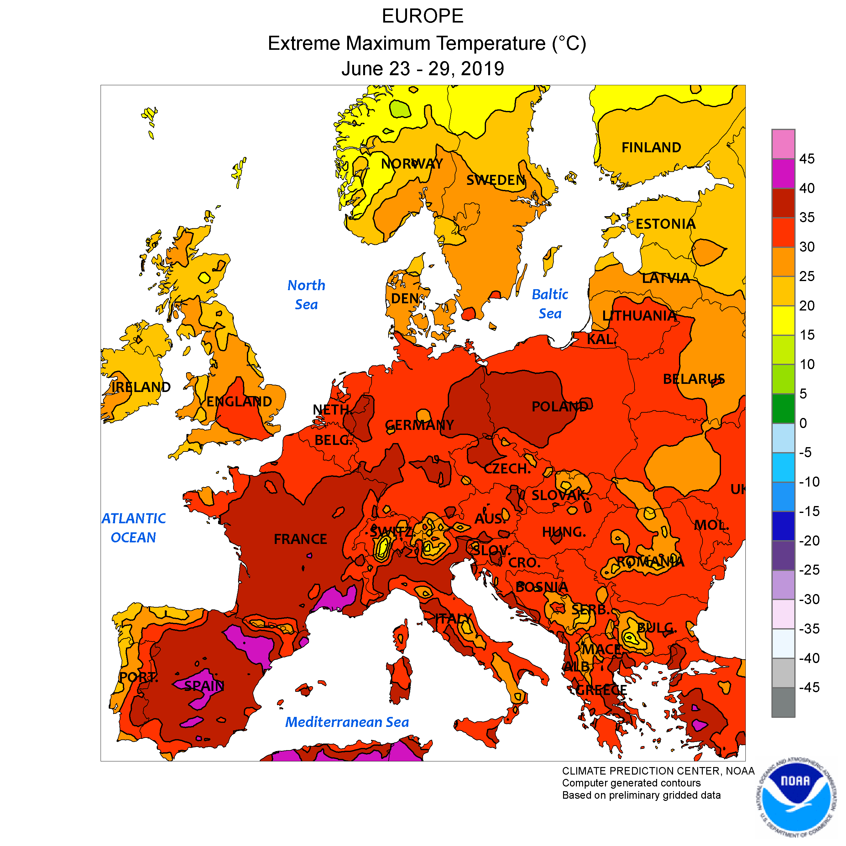 Europe: Extreme maximum temperature June 23 - 29 2019, computer generated contours, based on preliminary data; First 2019 European heat wave.